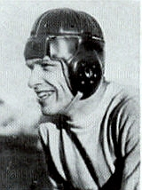 picture of George Wilson 1926